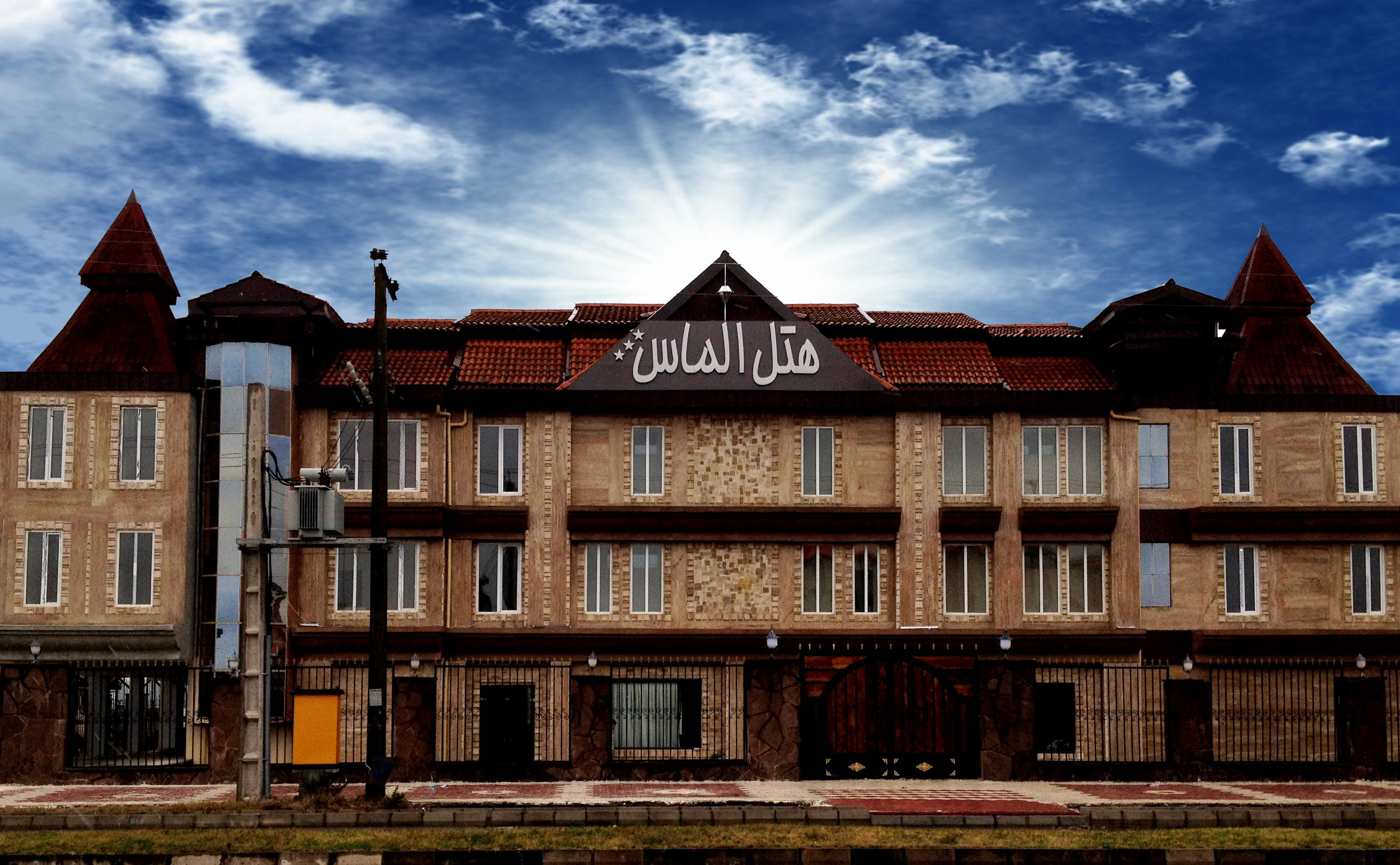 Almas hotel in Bandar Anzali Iran.